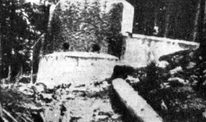 Bunker on Mount Blegoš, defended by a group of Partisans in July 1942, who then withdrew without loss